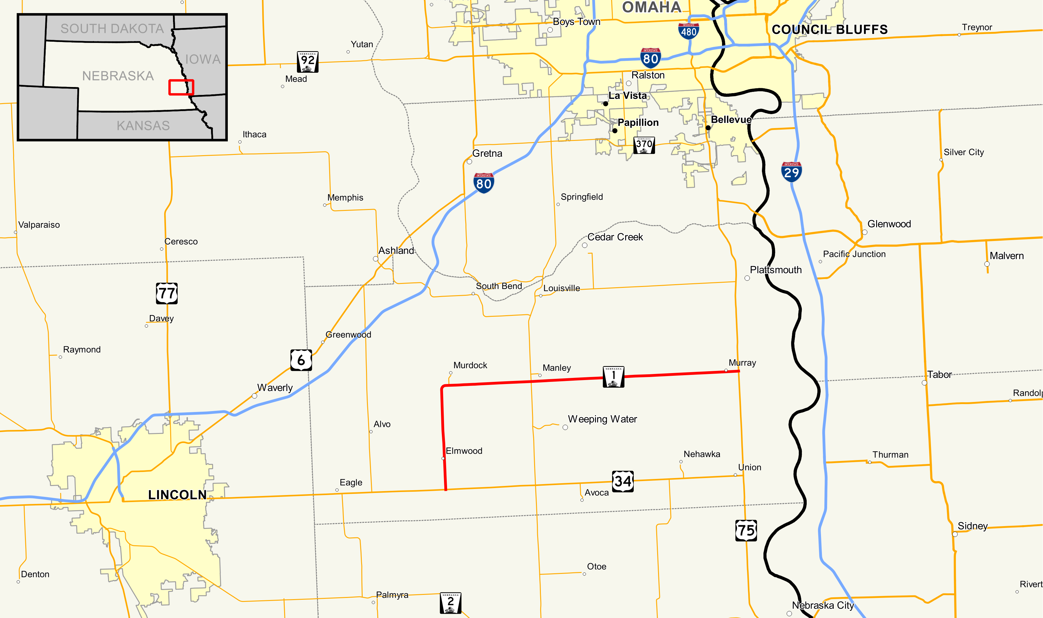 Map of Nebraska Highway 1